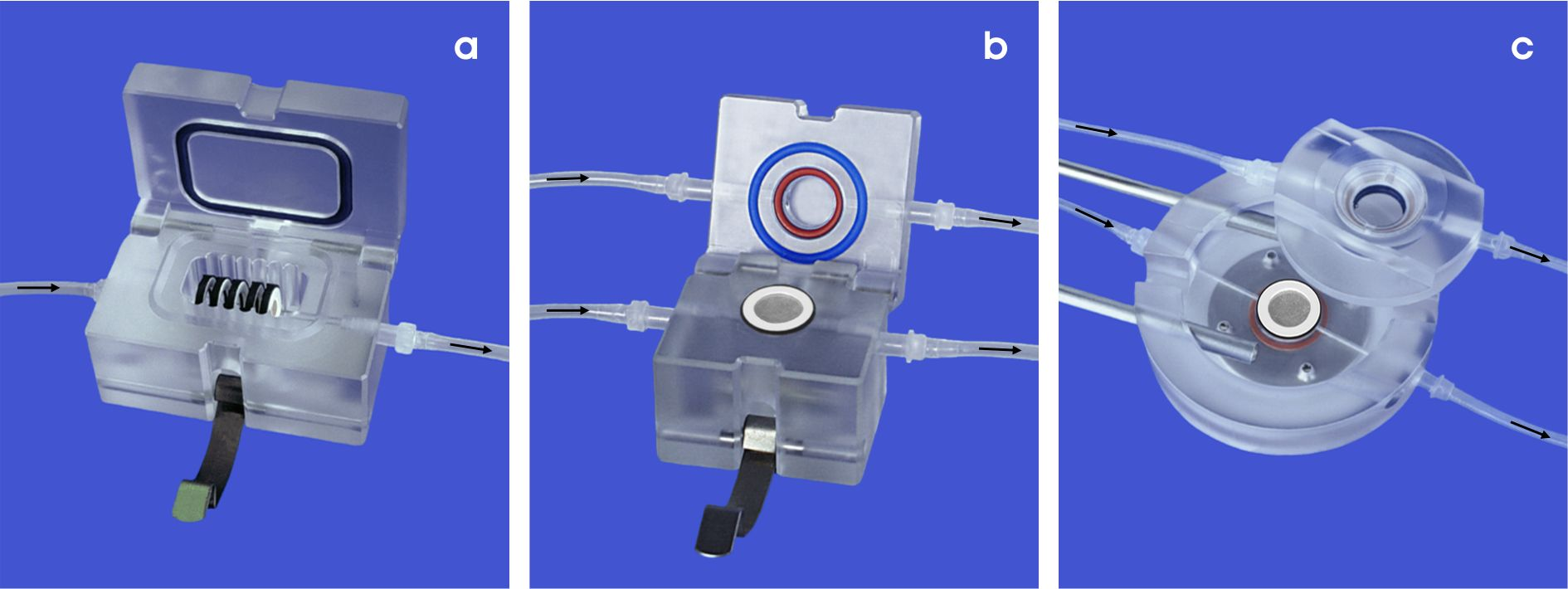 a. Perfusion culture container with 6 inserts b. Gradient perfusion container c. Microscope chamber